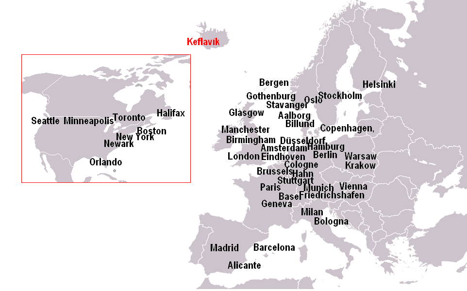 International flights to Keflavík Airport